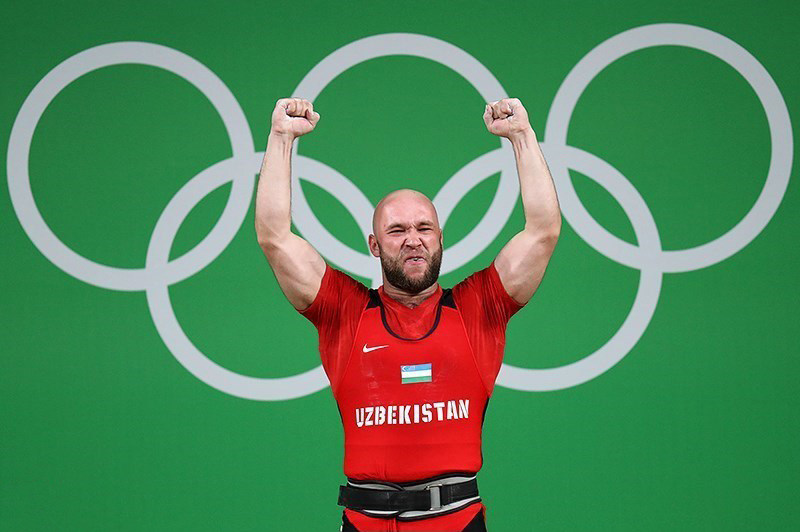 Weightlifting at the 2016 Summer Olympics – Men's 105 kg. Ruslan Nurudinov from Uzbekistan wins gold medal.